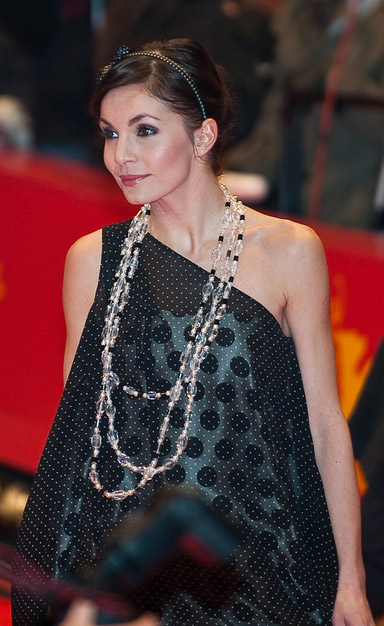 German actress Nadine Warmuth arriving at the opening of the 60th Berlin International Film Festival.